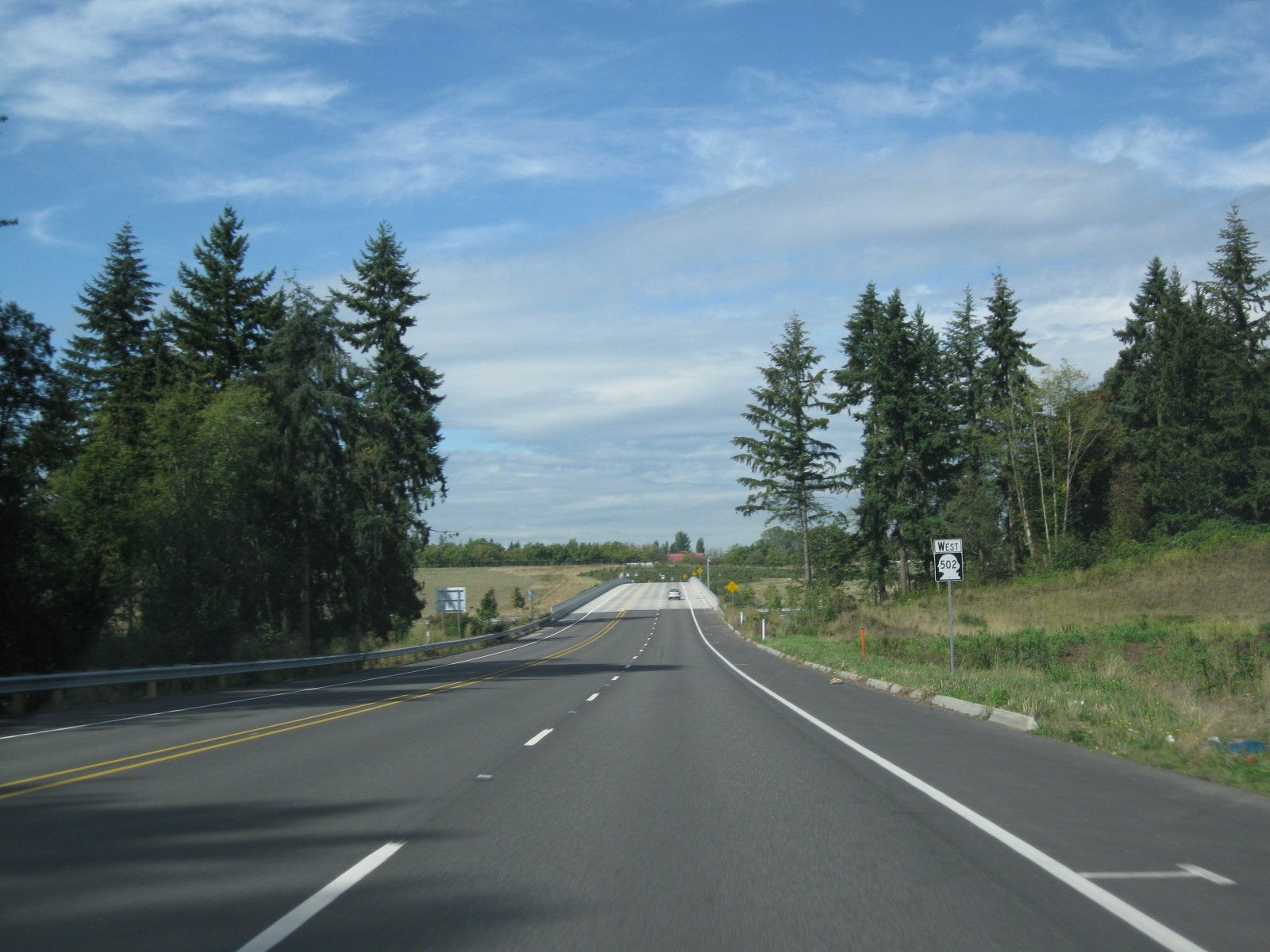 Washington State Route 502 westbound approaching Interstate 5 near Battle Ground.